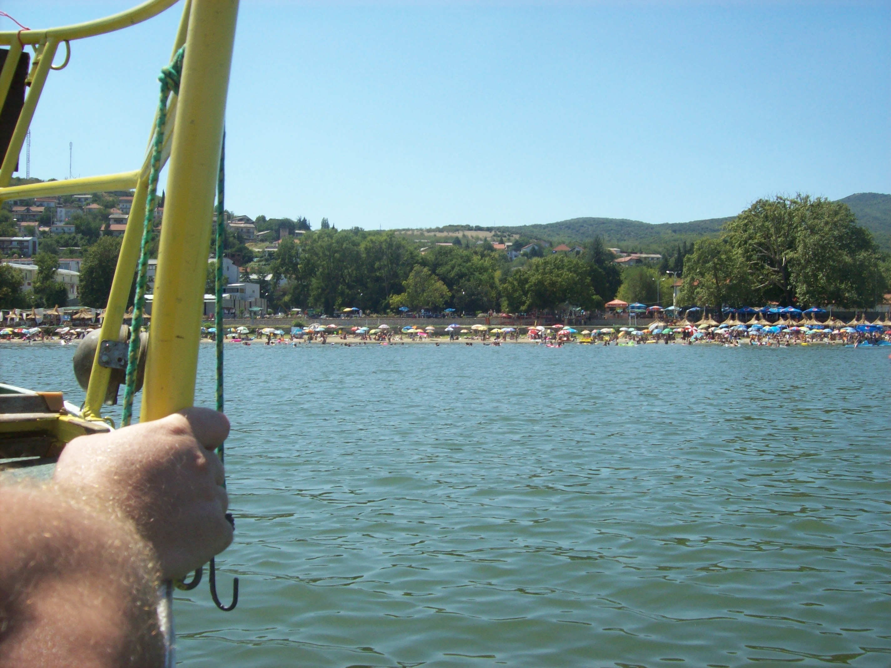 Star Dojran, Macedonia